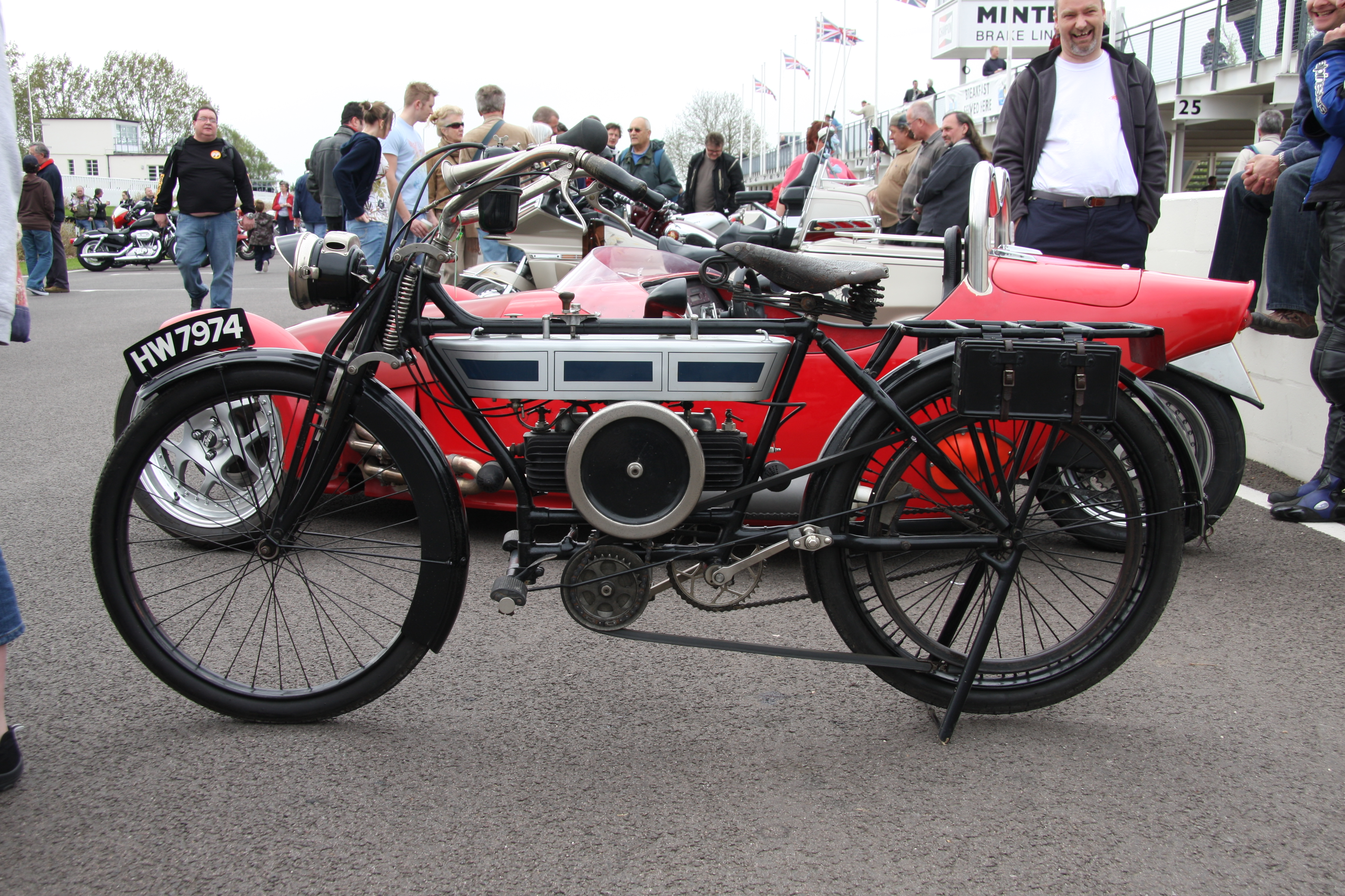 Old bike. What is it? (maybe a Douglas around 1914-1918?)